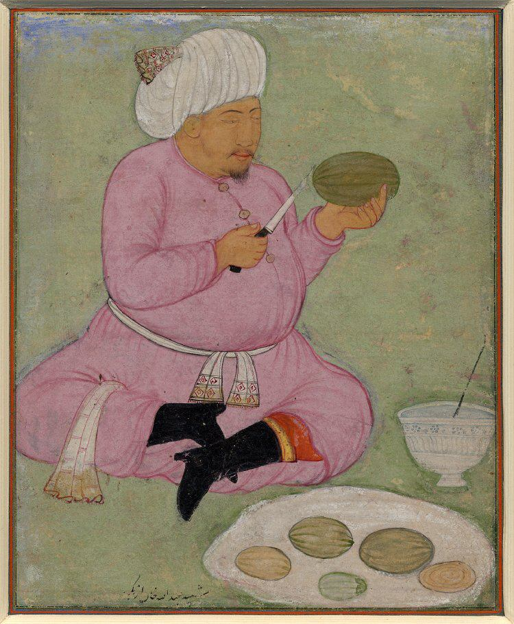 Description Painting of ʿAbdullah Khan Uzbek II slicing melons while seated, cross-legged. No text. Opaque watercolour on paper. School/style Bukhara School Culture/period Shaybanid dynasty Date 1590 (circa) Production place Made in: Bukhara Materials paper Technique painted Dimensions Width: 19.7 centimetres (sheet) Height: 32.6 centimetres (sheet) Height: 14.1 centimetres (image) Width: 11.4 centimetres (image) Curator's comments Inscribed with the name of the sitter, this portrait depicts Abdullah Khan in a private, domestic role rather than as the conqueror of Herat and Khurasan and ruler of Transoxiana. Abdullah Khan's bulbous turban and ample belly echo the rounded forms of the melons.